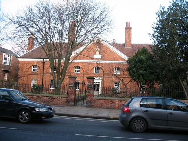 Wandesford House, Bootham Wandesford House was built in 1739 and founded as almshouses for ten poor maiden gentlewomen. Lower and longer than the other 18th century buildings along Bootham.